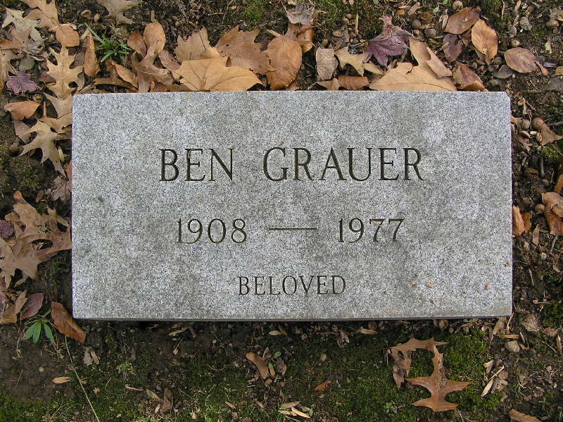 I took this photograph of Ben Grauer's marker in Westchester Hills Cemetery on November 27, 2006. — GNU Free Documentation License